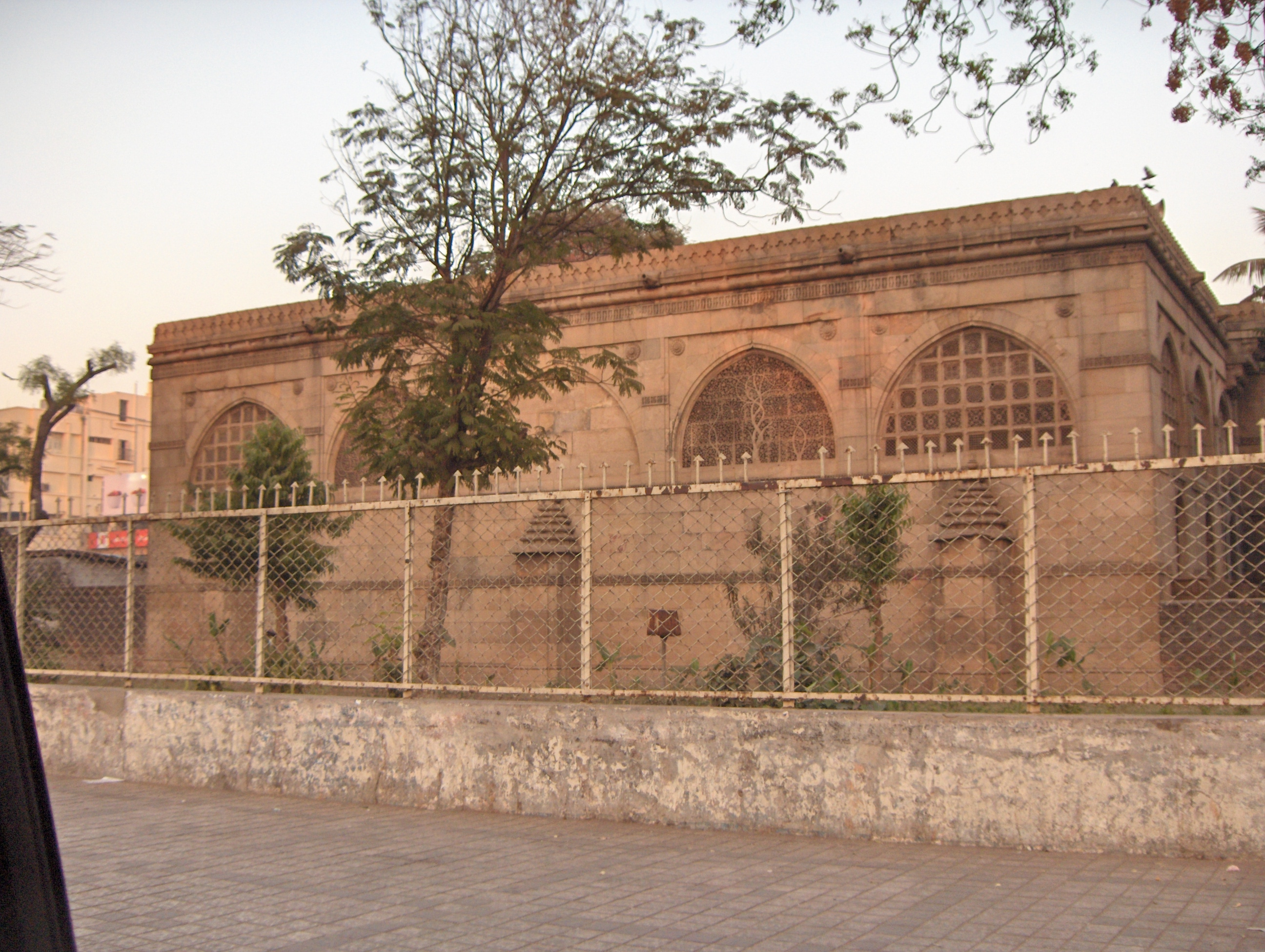 Sidi Saiyeed Jaali in Ahmedabad, India Picture taken by me, Nichalp on 28-Jan-2006